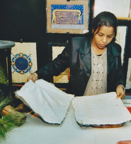 Woman from Egypt with papyrus